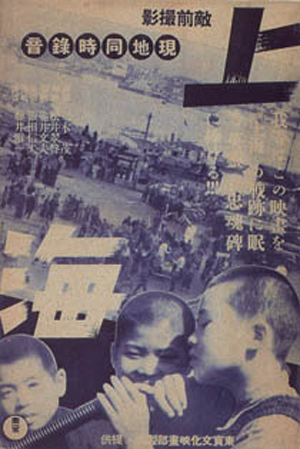 flier of "Shanghai" Director:Fumio Kamei